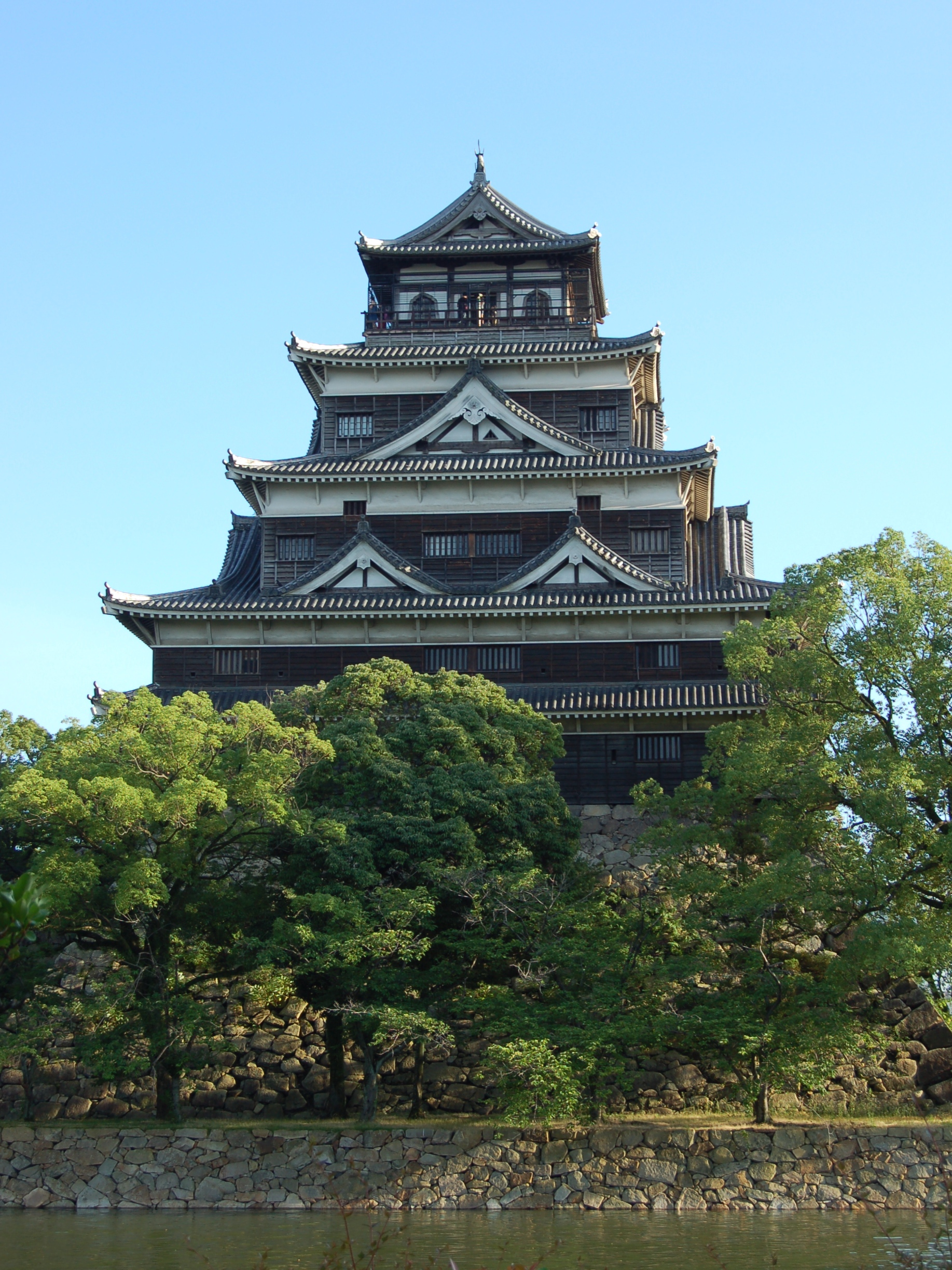 Hiroshima castle